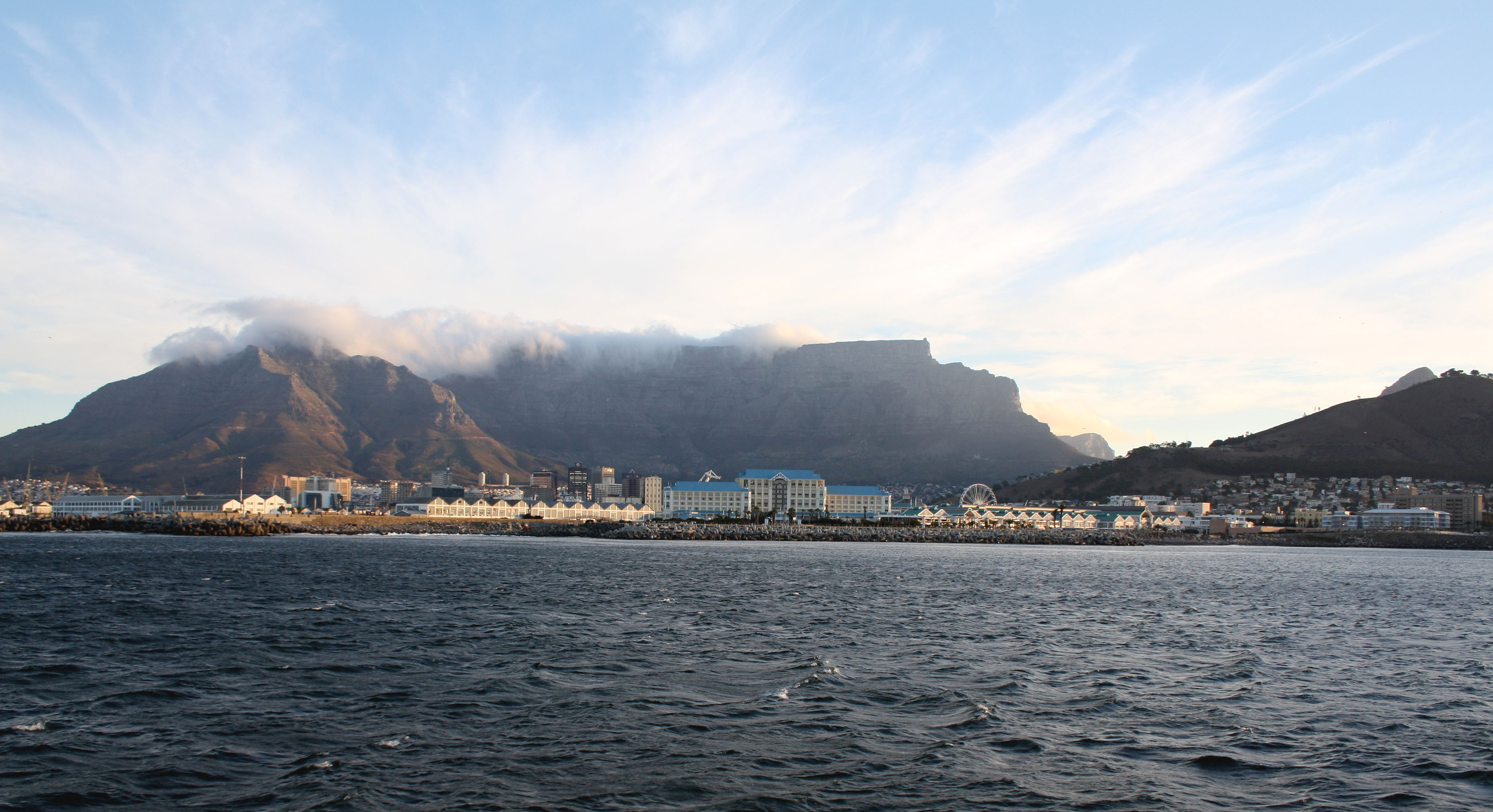 Victoria & Alfred Waterfront in Cape Town, seen from Table Bay. April 2012. Photo by Winstonza talk